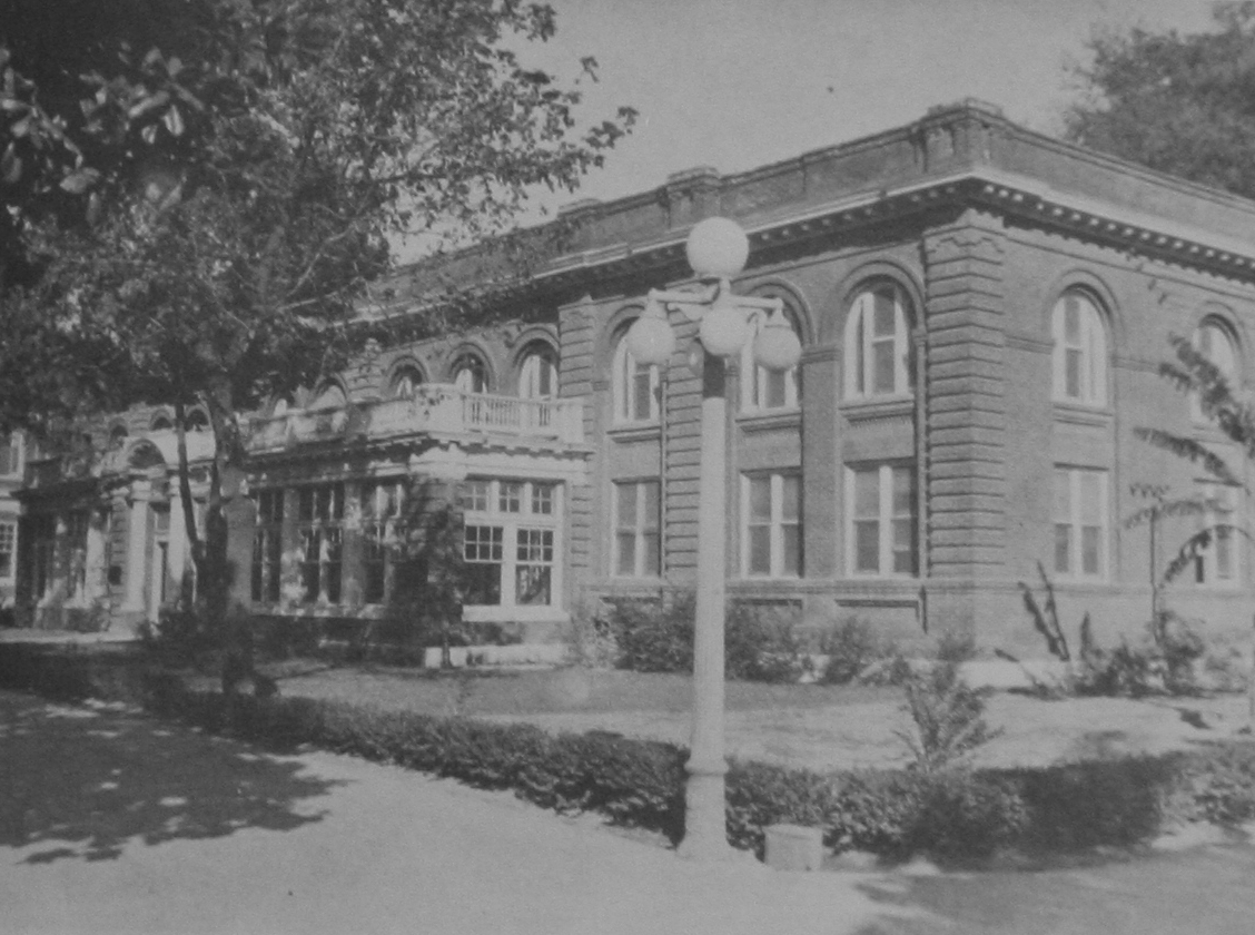 Hale Bathhouse, on Bathhouse Row in Hot Springs National Park, between 1915 and 1937.